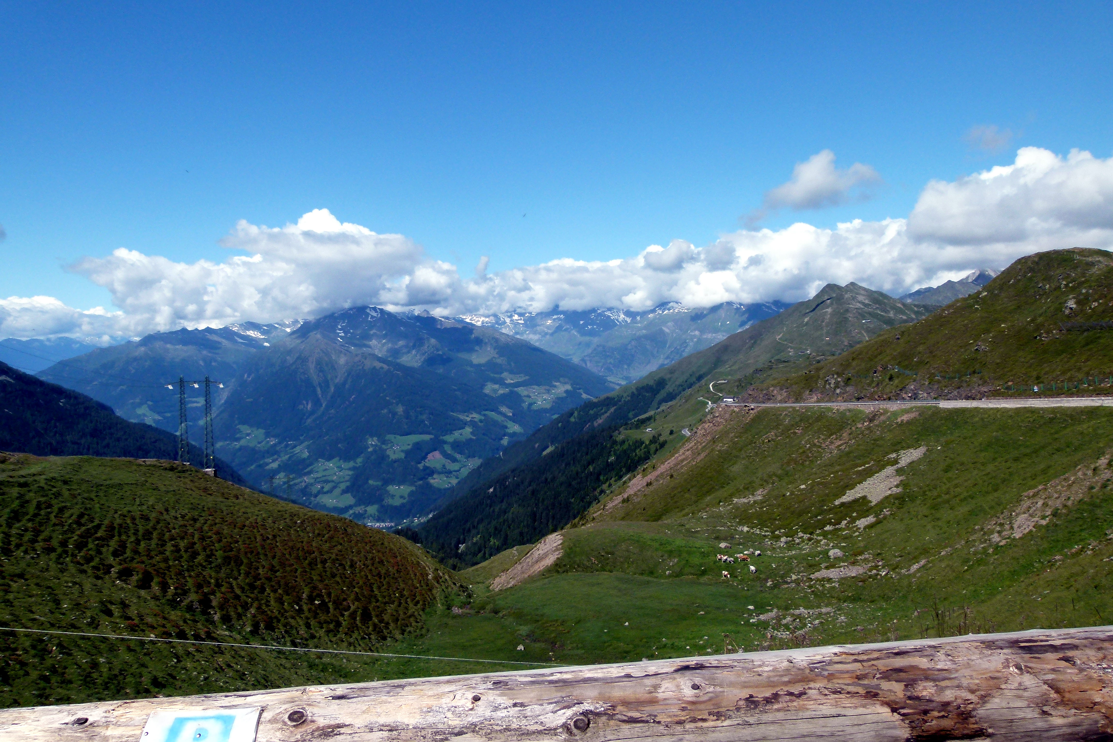 Jaufenpass, Italy